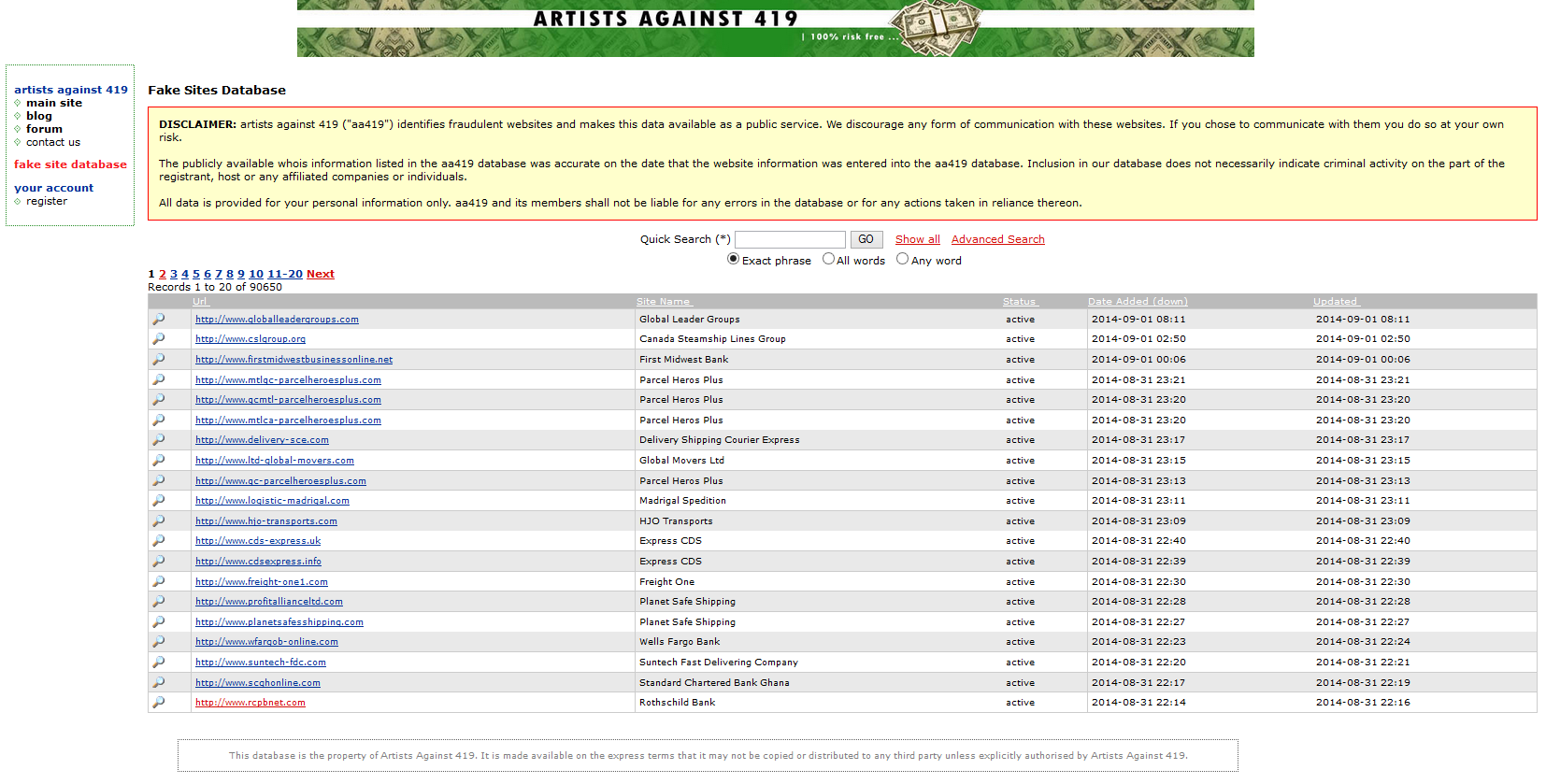 Artists Against 419 database landing page.